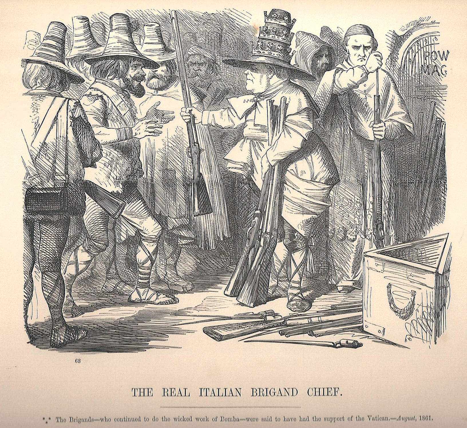 satiric print: PIUS IX as brigands chief distributes weapons to south italian brigands